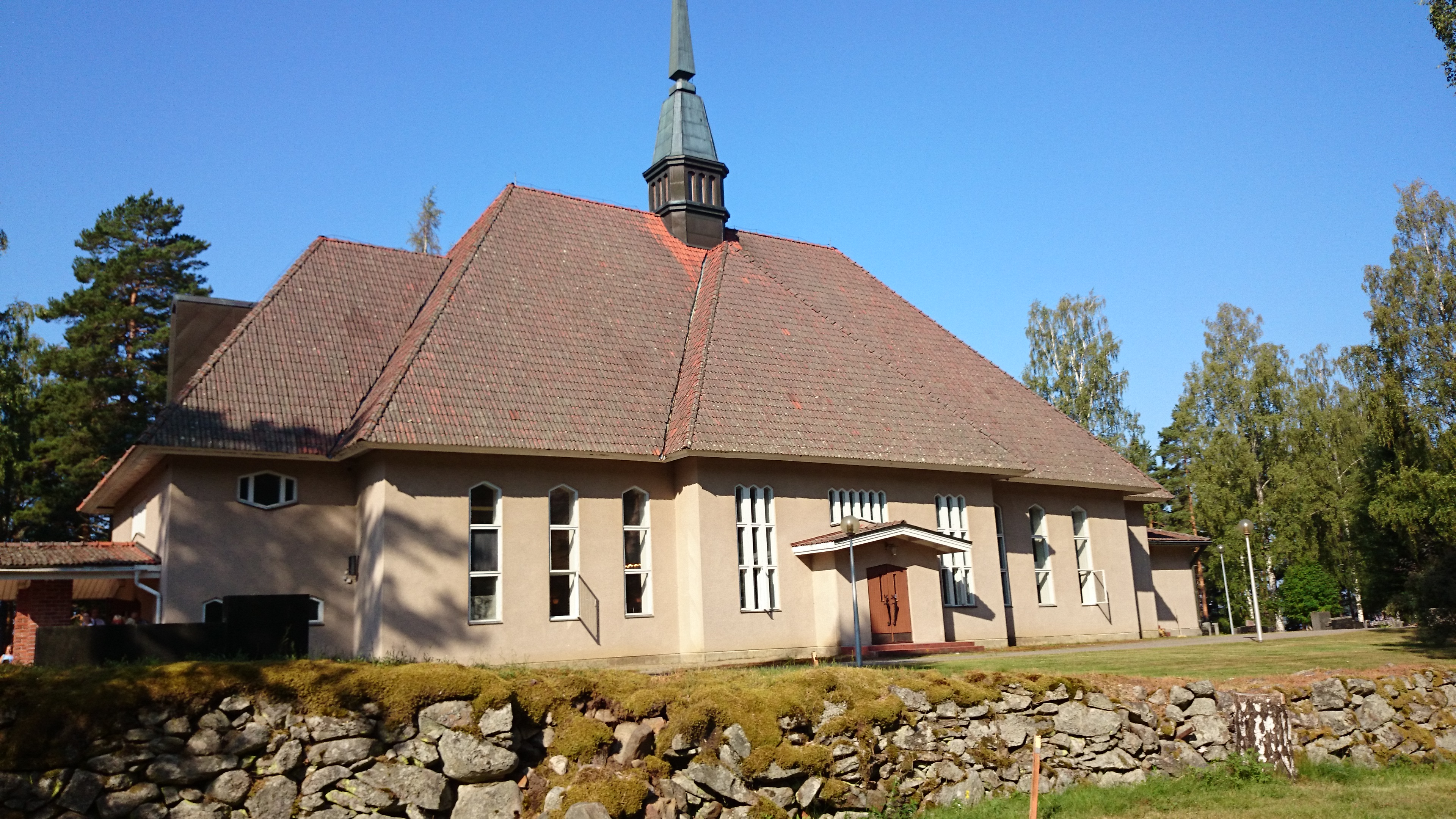 Haukivuori Church in Mikkeli, Finland.